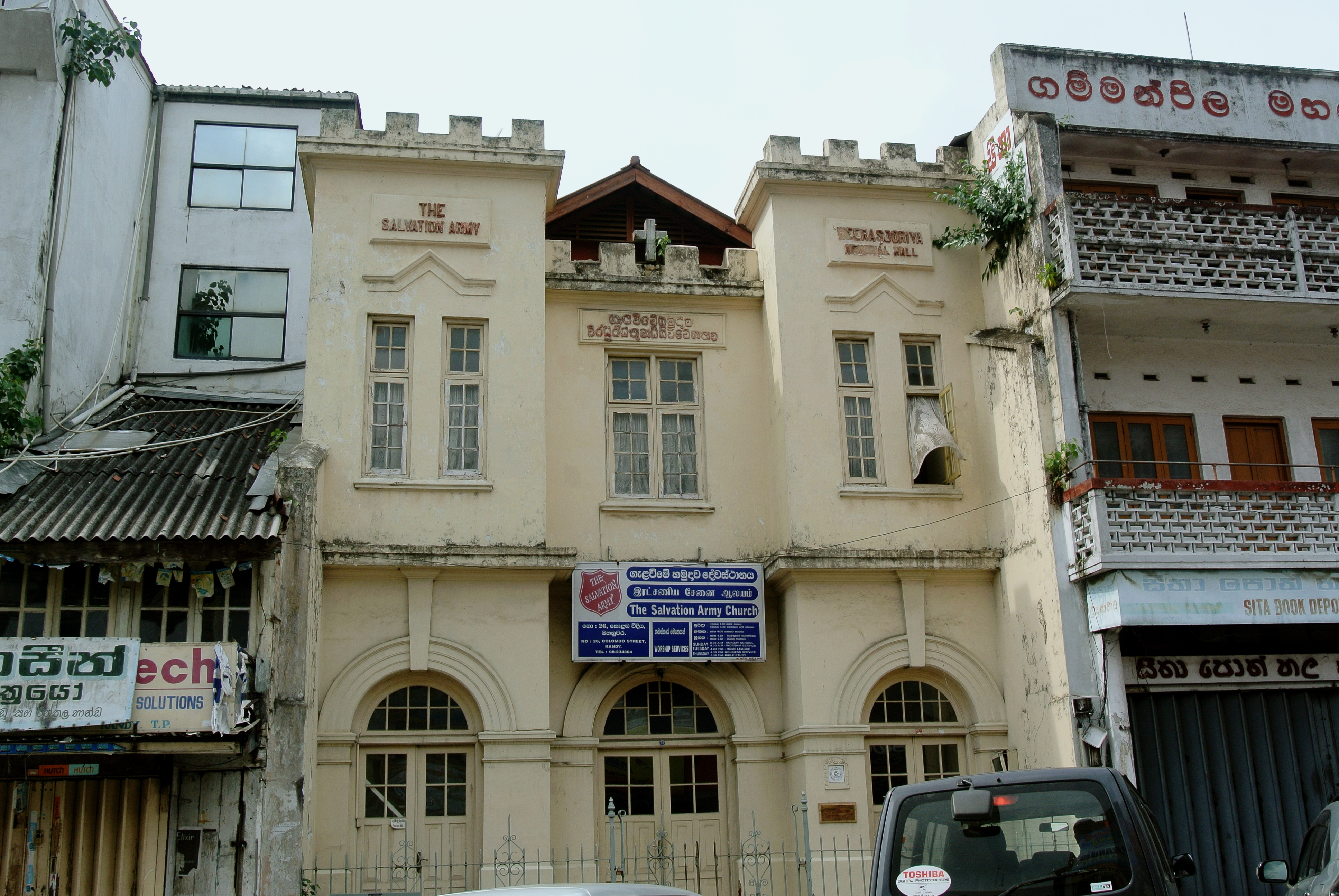 Salvation Army Church, 26 Colombo Street, Kandy.